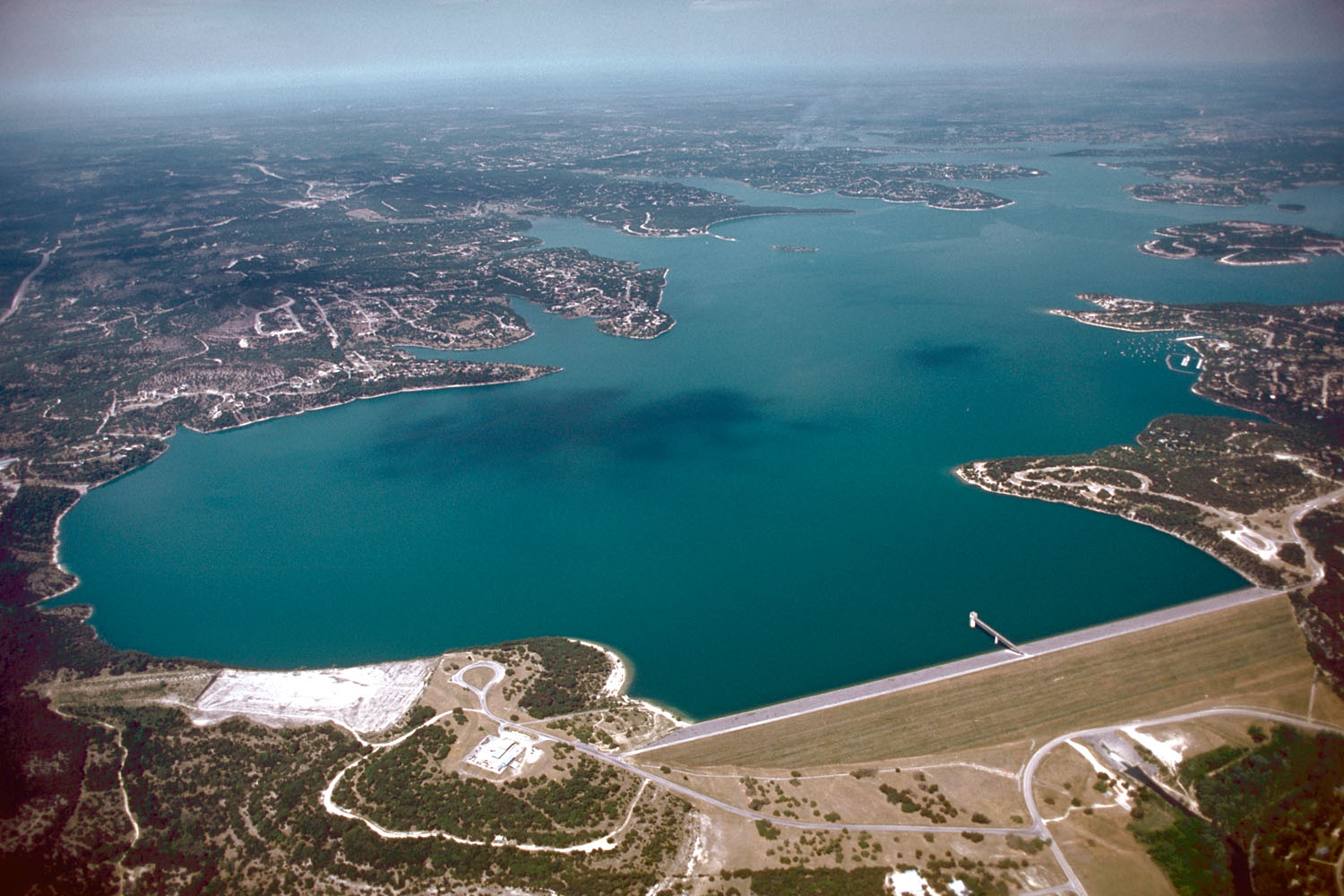 Aerial view of Canyon Lake and Dam on the Guadalupe River in Comal County, Texas, USA. The dam was completed in 1964 by the U.S. Army Corps of Engineers for flood control and water supply. The dam, lake, and all adjacent property are managed by the Guadalupe-Blanco River Authority. View is to the west. Coordinates: 29°52′9.22″N 98°11′51.06″W / 29.8692278°N 98.1975167°W